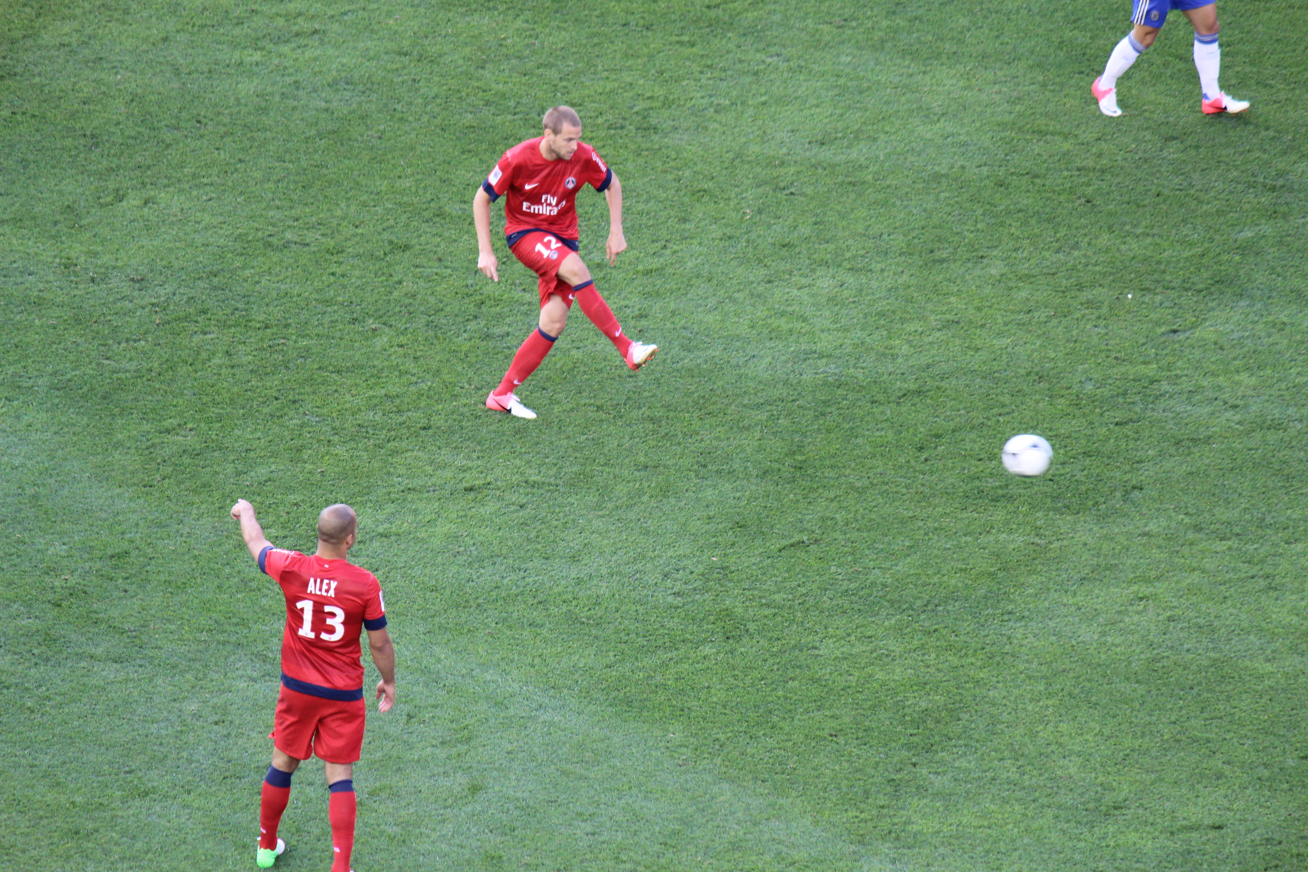 "Yankee Stadium" soccer